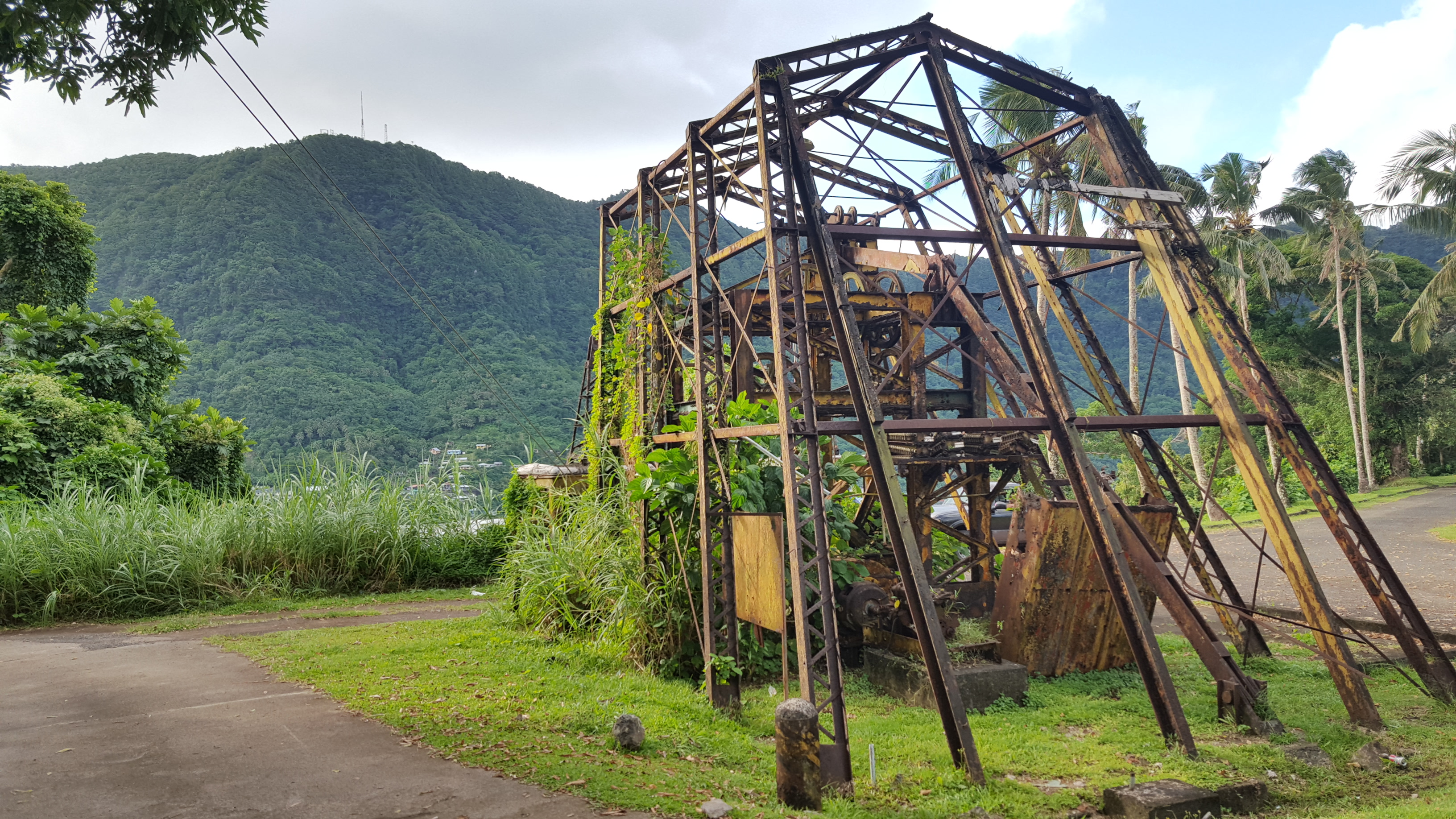 Remains of the historic tramway on the World War II Heritage Trail managed by the National Park of American Samoa